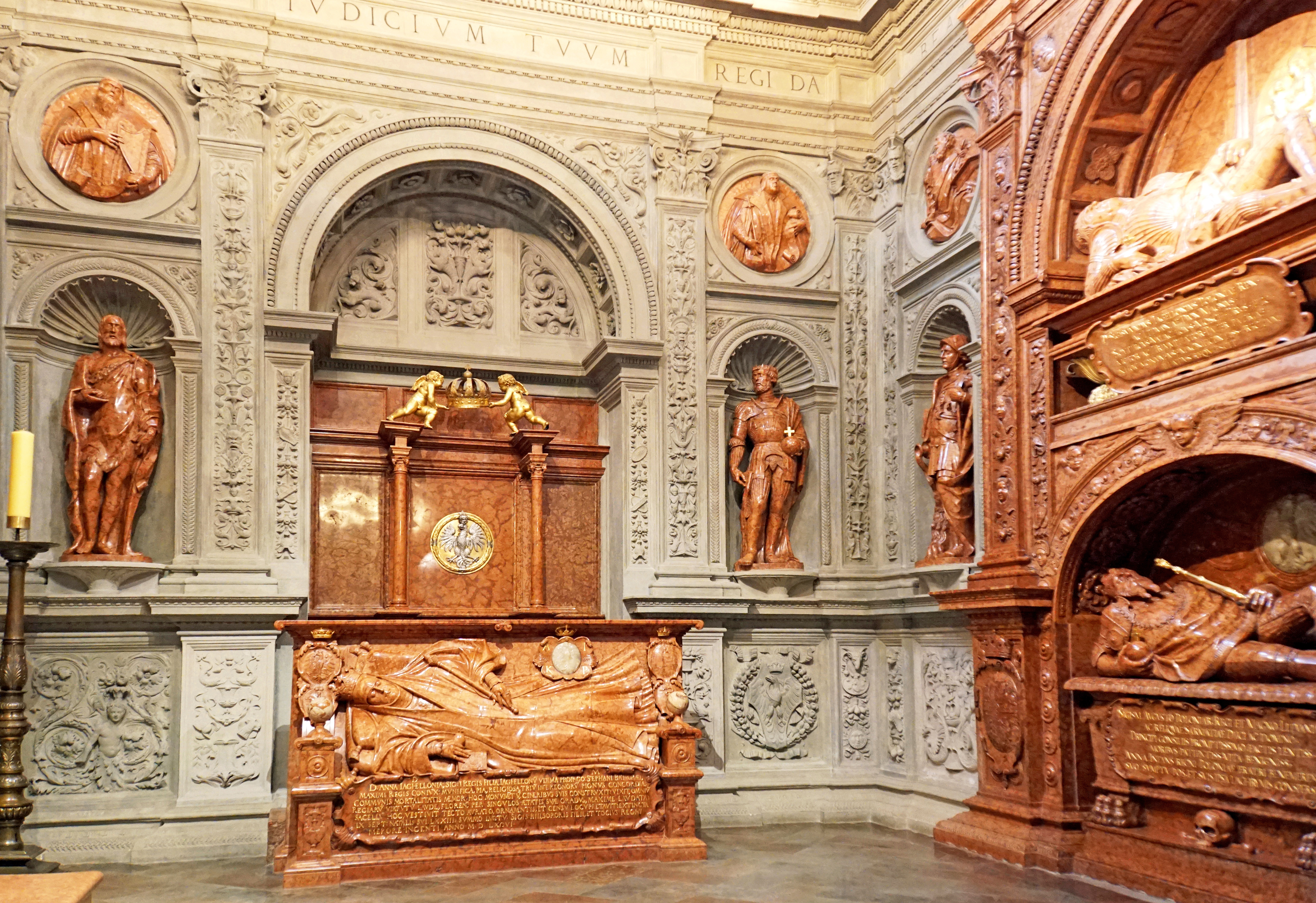 Sigismund's Chapel one of the masterpieces of Polish architecture. Built as a funerary chapel for the last Jagiellons, it is considered by many art historians as "the most beautiful example of the Tuscan Renaissance north of the Alps". Financed by King Sigismund I the Old, it was built in 1519-33 by Bartolomeo Berrecci. A square-based chapel with a golden dome houses the tombs of its founder King Sigismund, as well as King Sigismund II Augustus and Anna Jagiellonka. The inner sculptures, stuccos and paintings were designed by some of the most renowned artists of the age. Wawel Cathedral, home to royal coronations and resting place of many national heroes; considered to be Poland's national sanctuary.